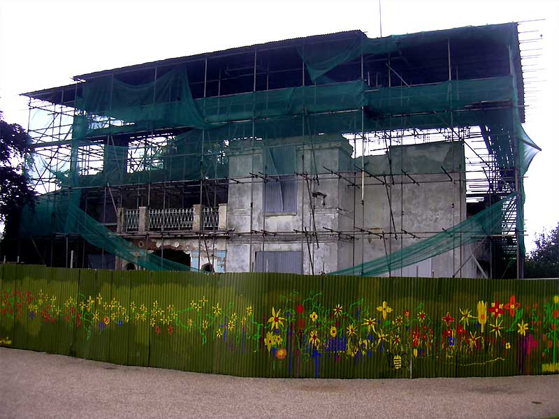 The front of Dollis Hill House, London, in scaffolding